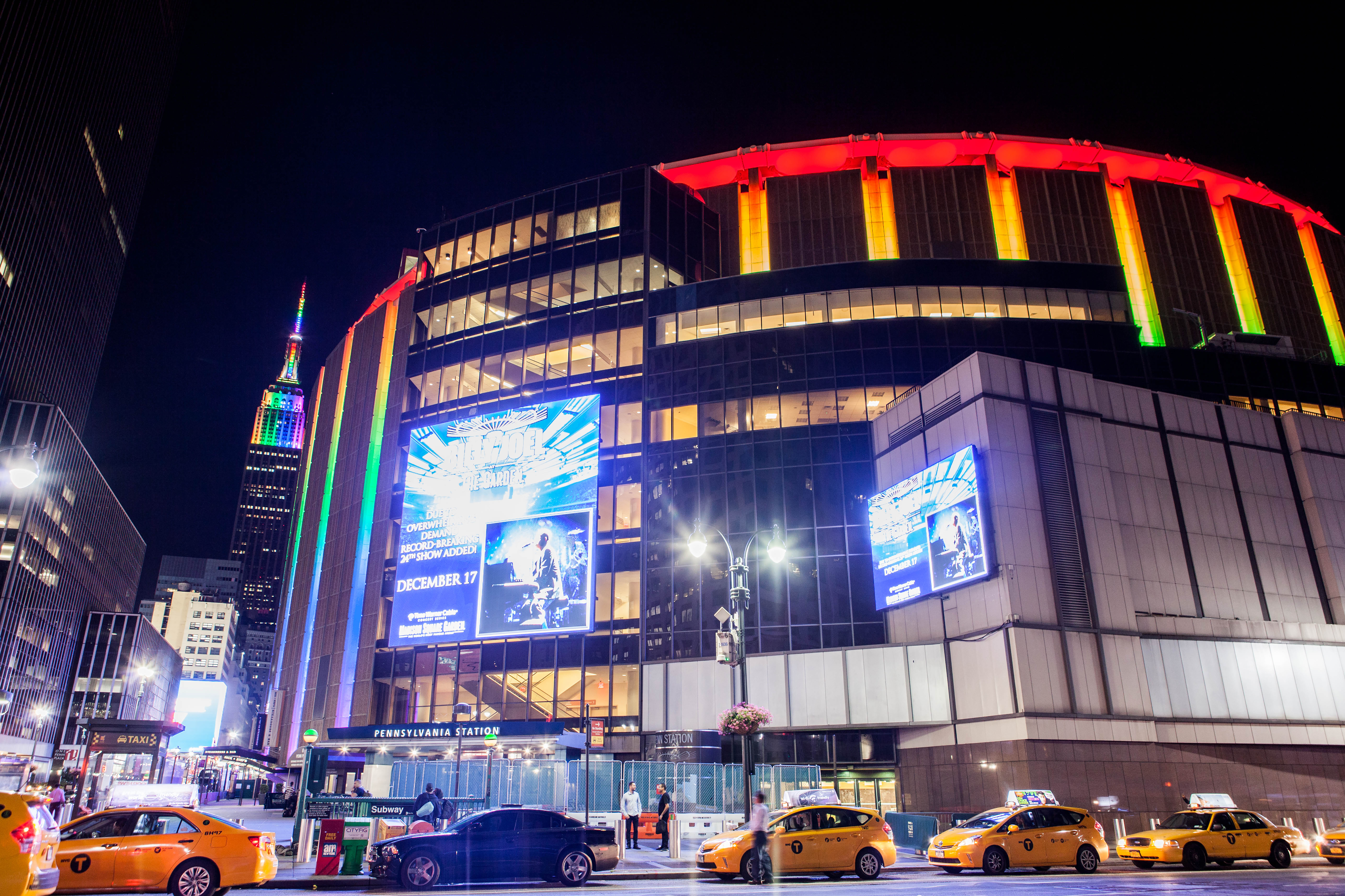 Rainbow Buildings for Gay Pride 2015